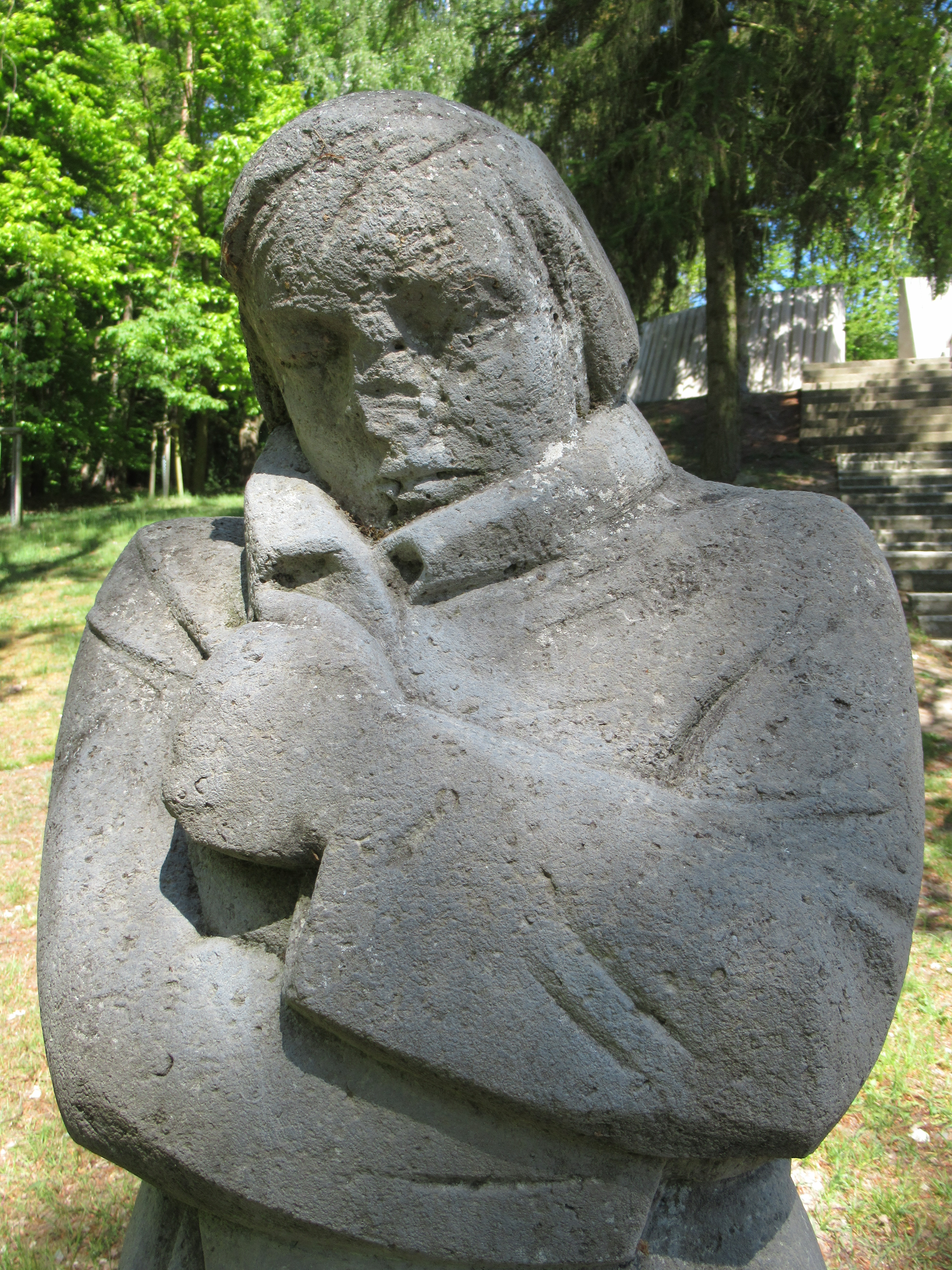 Golm (Usedom) War Cemetery Woman Memorial